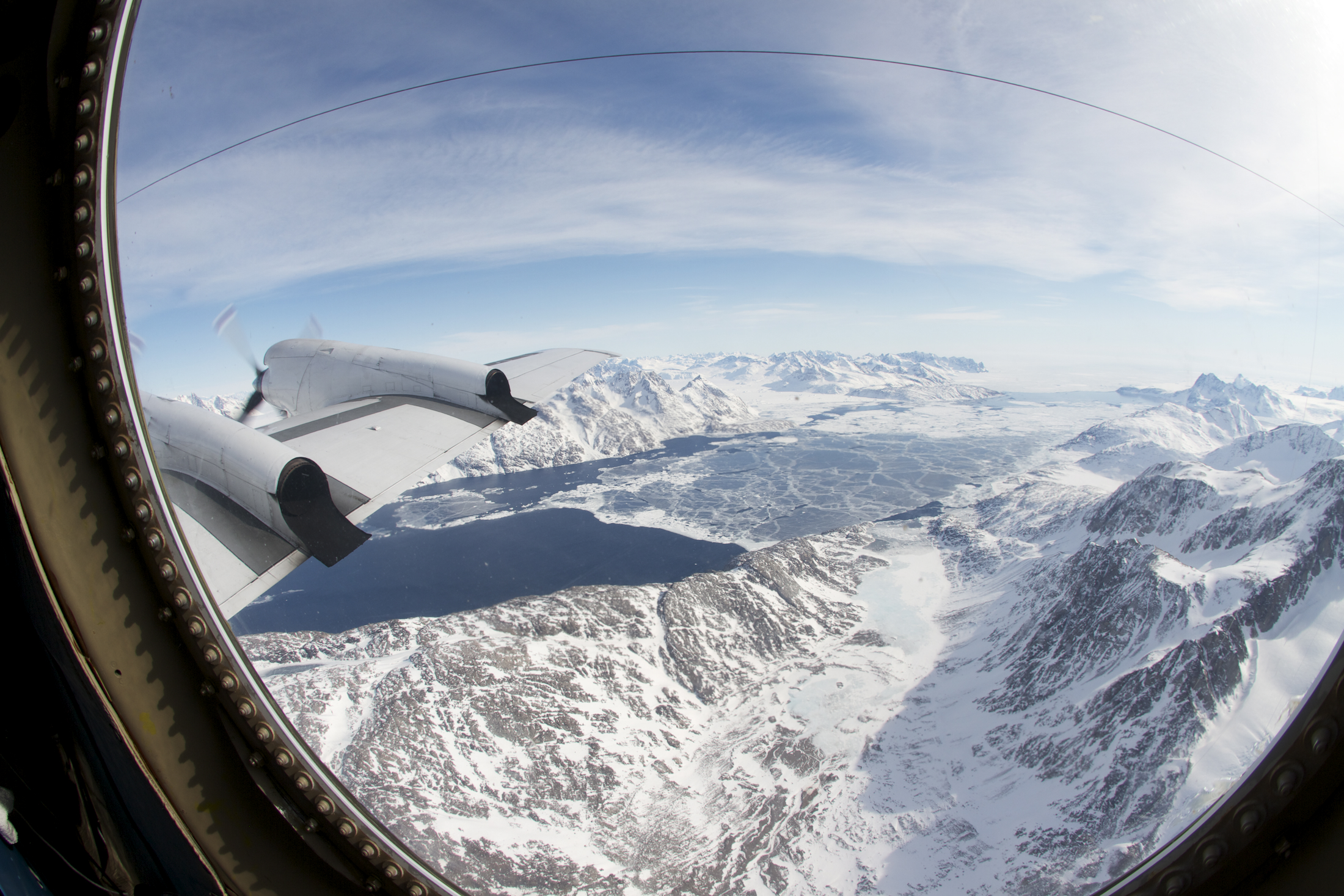 Icy water in the fjord of the Kangerdlugssuaq Glacier in eastern Greenland, as seen from NASA's P-3B aircraft on Apr. 14, 2012. The wire seen at the top of the frame is a high frequency radio antenna attached to the aircraft, and appears curved due to the use of a fisheye lens when taking the photograph. Credit: NASA/Jefferson Beck = IceBridge, a six-year NASA mission, is the largest airborne survey of Earth's polar ice ever flown. It will yield an unprecedented three-dimensional view of Arctic and Antarctic ice sheets, ice shelves and sea ice. These flights will provide a yearly, multi-instrument look at the behavior of the rapidly changing features of the Greenland and Antarctic ice. To read more about this mission go to: NASA image use policy. NASA Goddard Space Flight Center enables NASA’s mission through four scientific endeavors: Earth Science, Heliophysics, Solar System Exploration, and Astrophysics. Goddard plays a leading role in NASA’s accomplishments by contributing compelling scientific knowledge to advance the Agency’s mission. Follow us on Twitter Like us on Facebook Find us on Instagram